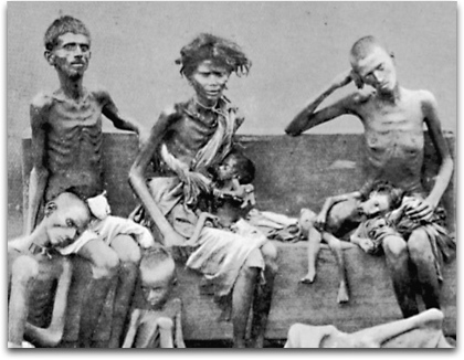 Victims of genocide, famine